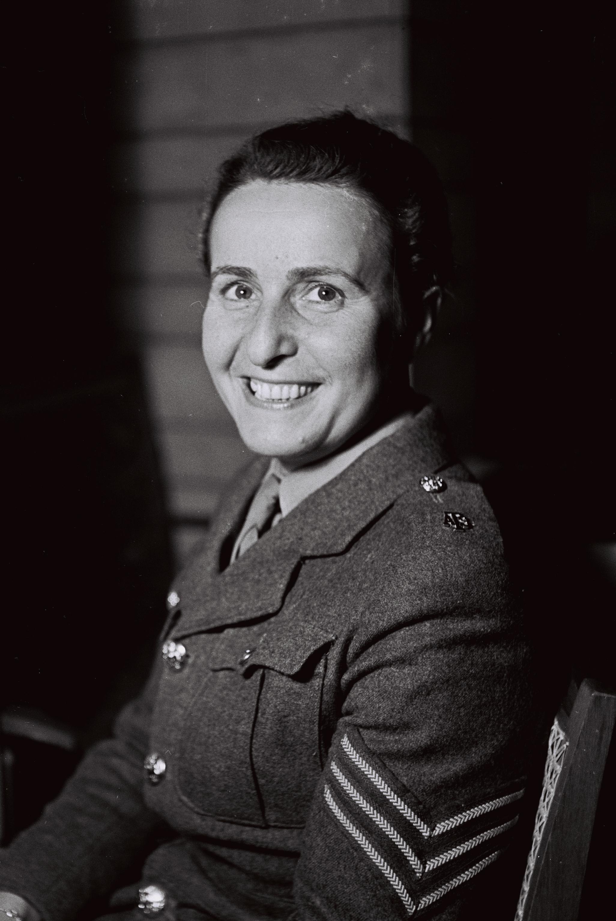 A portrait of a Jewish volunteer in the British auxiliary territorial service (30/03/1942).